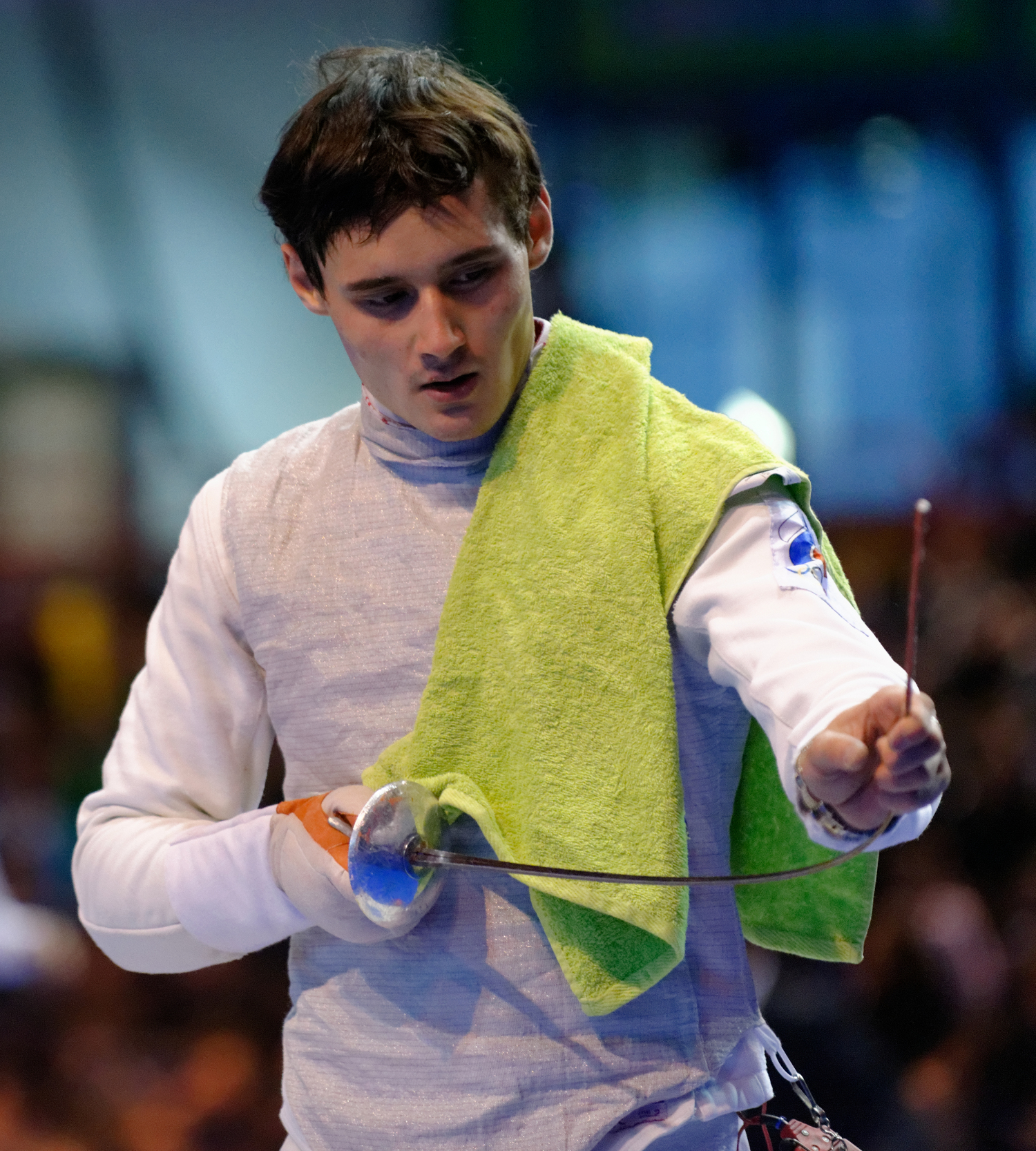 Timur Safin straightens his blade during his T32 final at the Challenge international de Paris 2013 against Andrea Baldini.